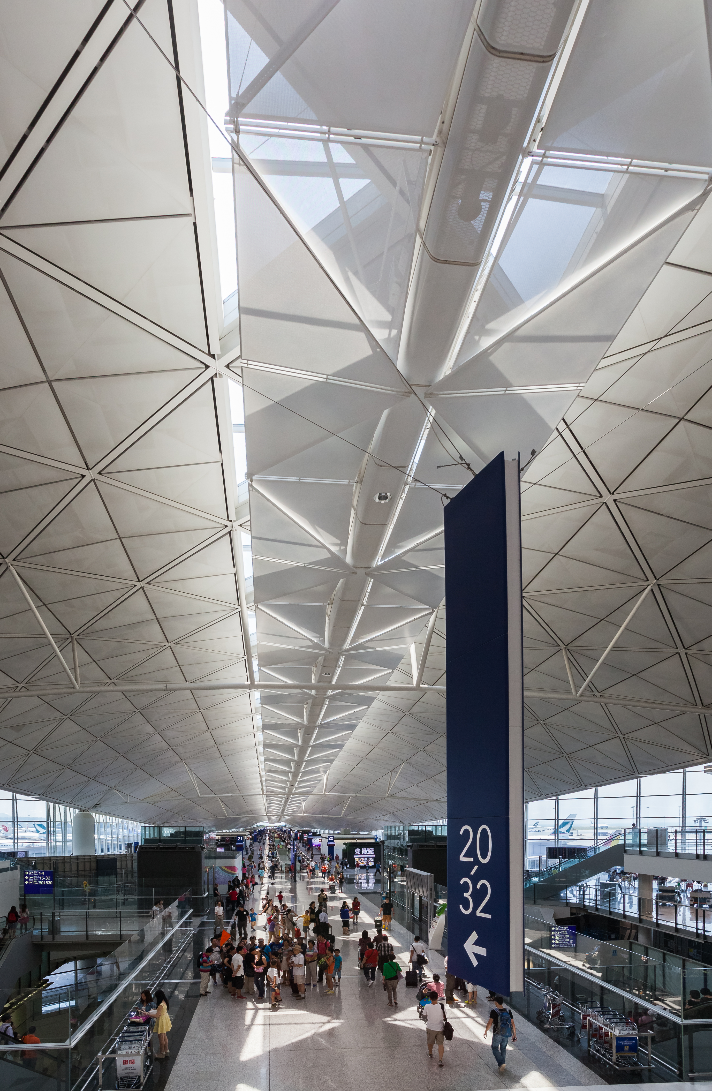 Hong Kong Airport